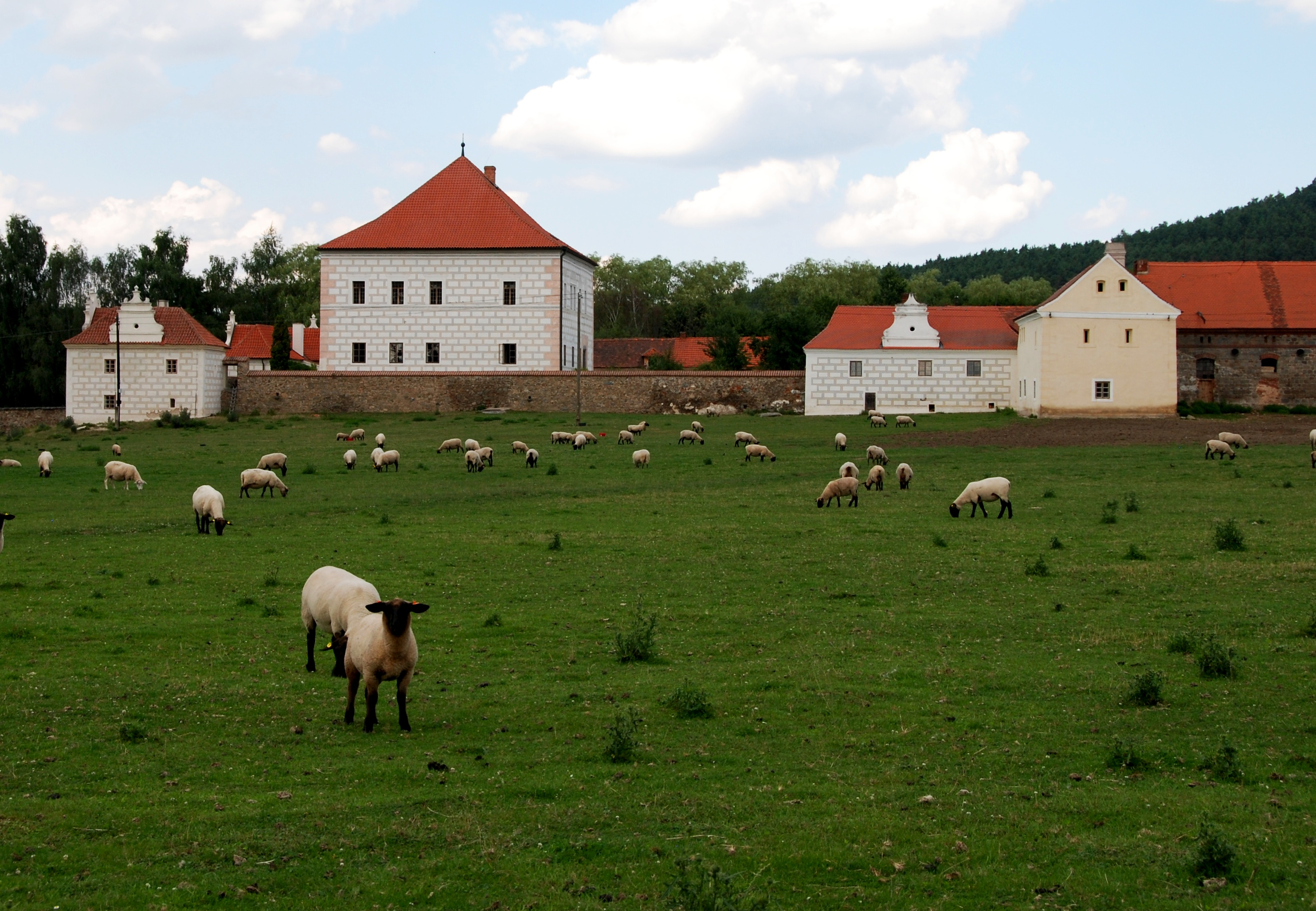 This photograph was taken within the scope of the second year of the 'Czech Municipalities Photographs' grant.